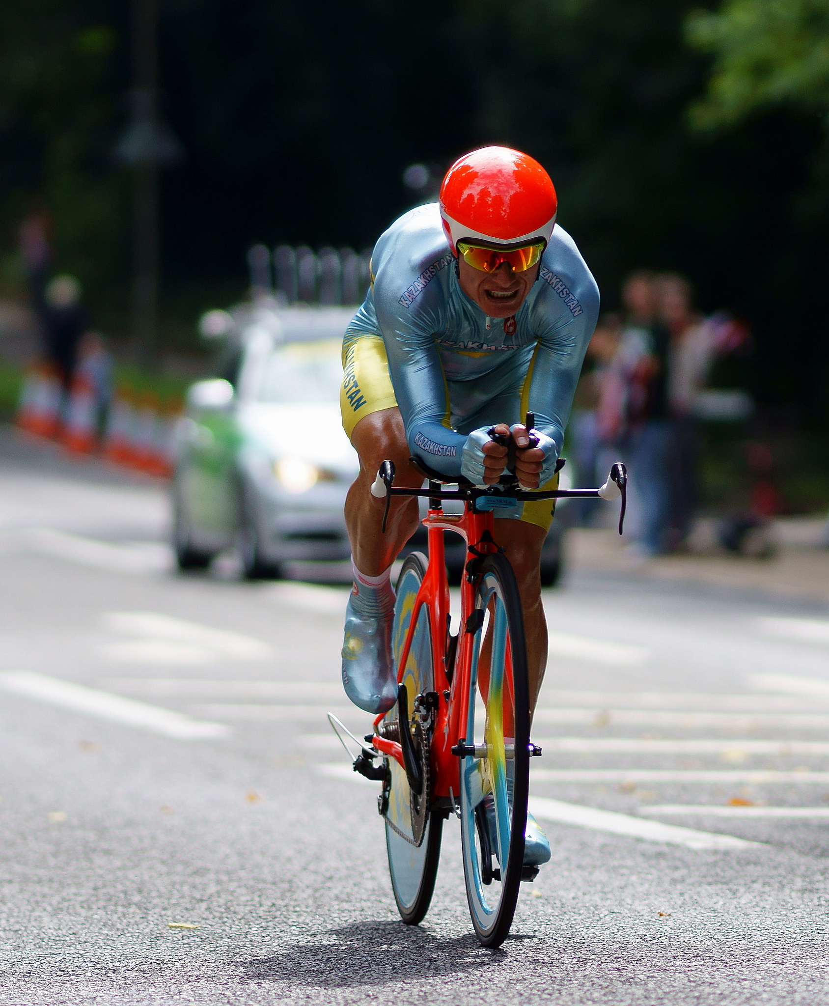 Seen in time trial action, at the Olympic Games 2012. Whilst Alexandr finished well down the placings (23rd), clocking 55.37.05 for the 44k course, the Kazakhstan rider was at his best in the road race, winning the gold medal. Seen passing Claremont Gardens, to the south of Esher.